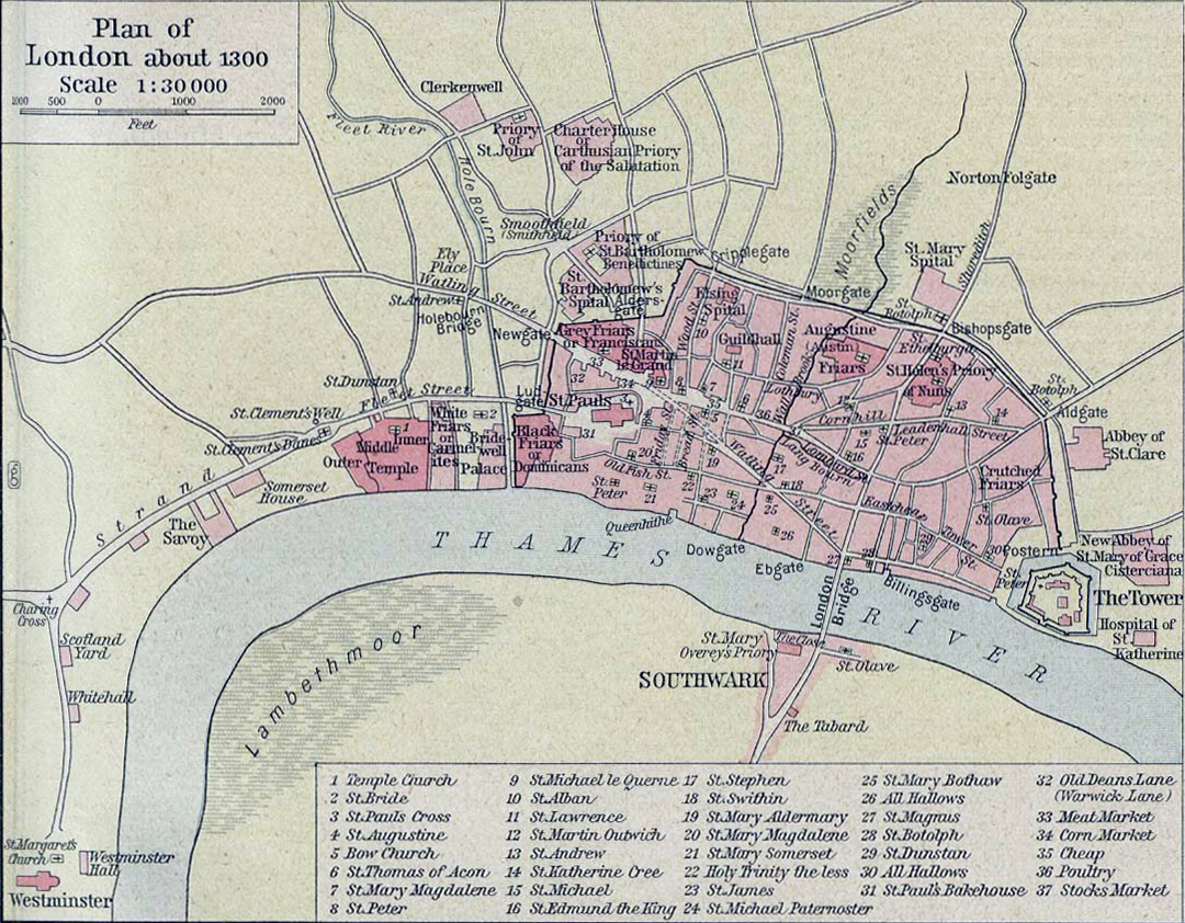 A plan drawn up in 1926 of how London may have appeared in 1300.